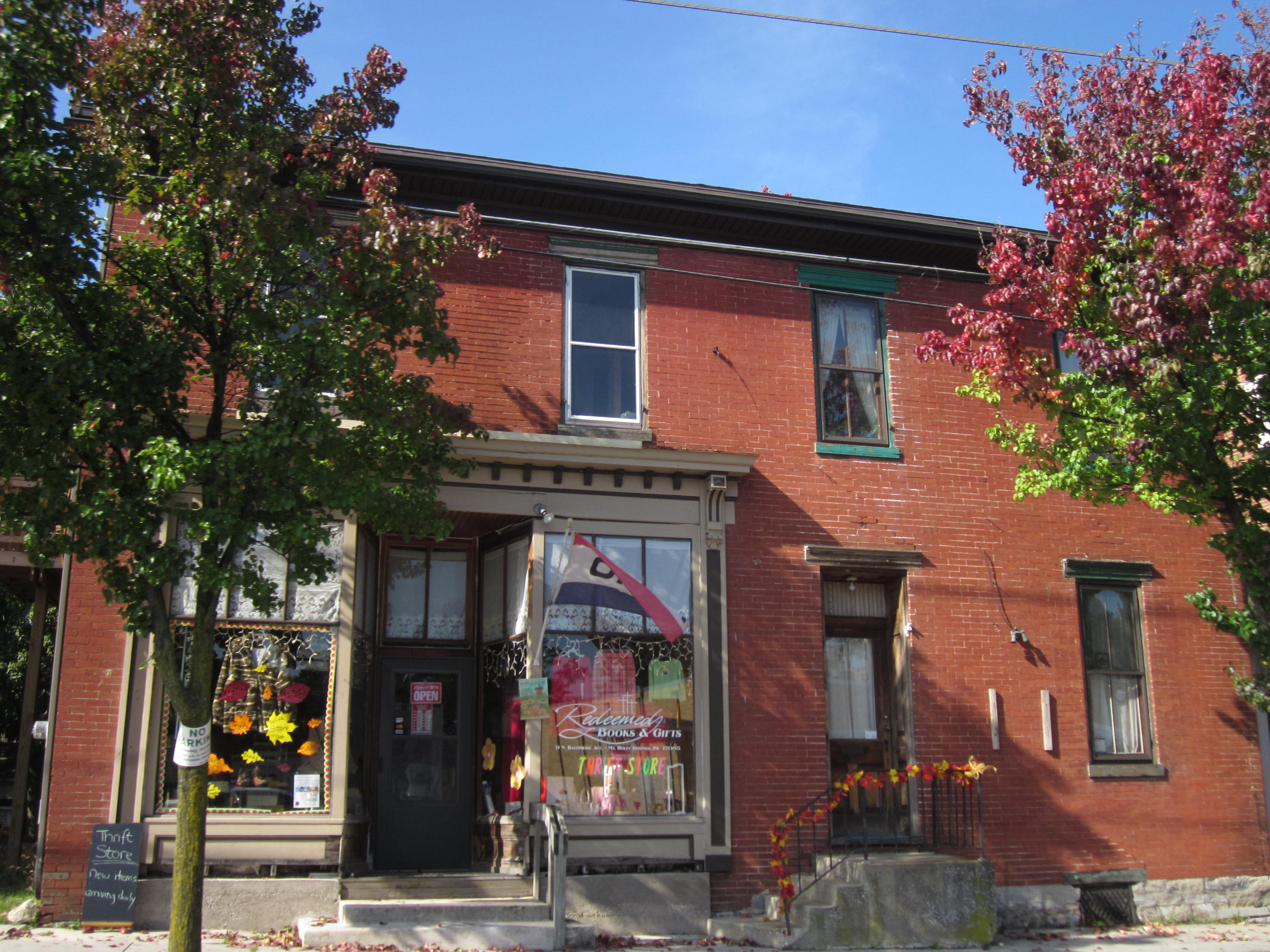 Mount Holly Springs, Pennsylvania